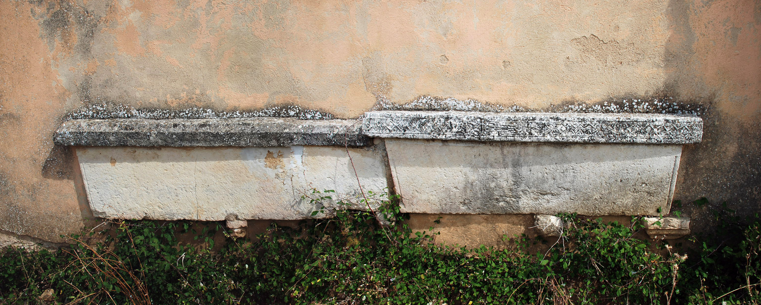 View of the sarcophagi reused as part of the premostatense monastery in Arenillas de San Pelayo, (Palencia, Castile and León). These would be integrated into the part corresponding to the cloister, destroyed during the war of independence, while popular tradition data as the Visigoths, although it is likely that they are part of the first corresponding Foundation at the beginning of the 12th century.